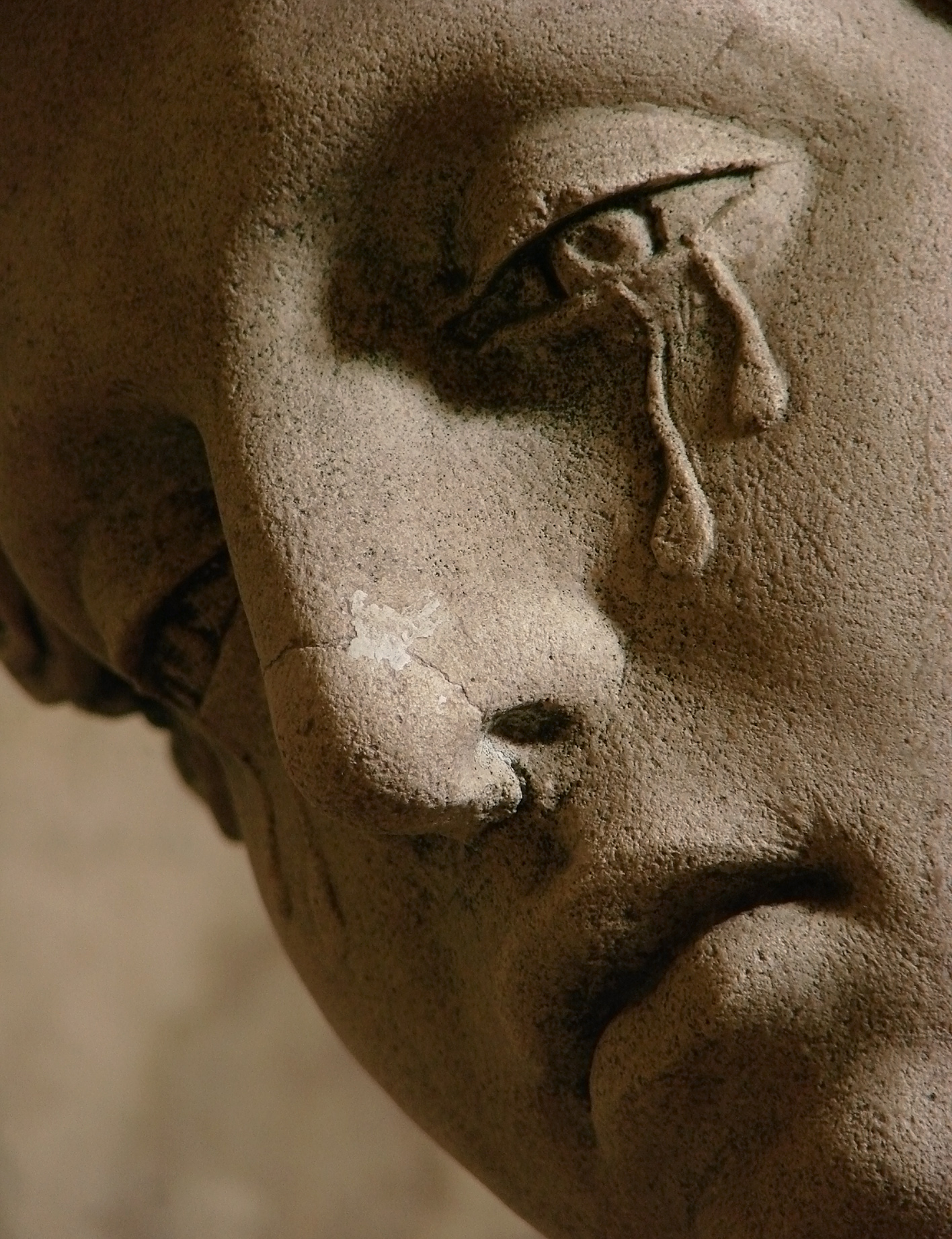 Entombment of Christ, 1672, in Saint-Martin Church in Arc-en-Barrois (Haute-Marne, France).